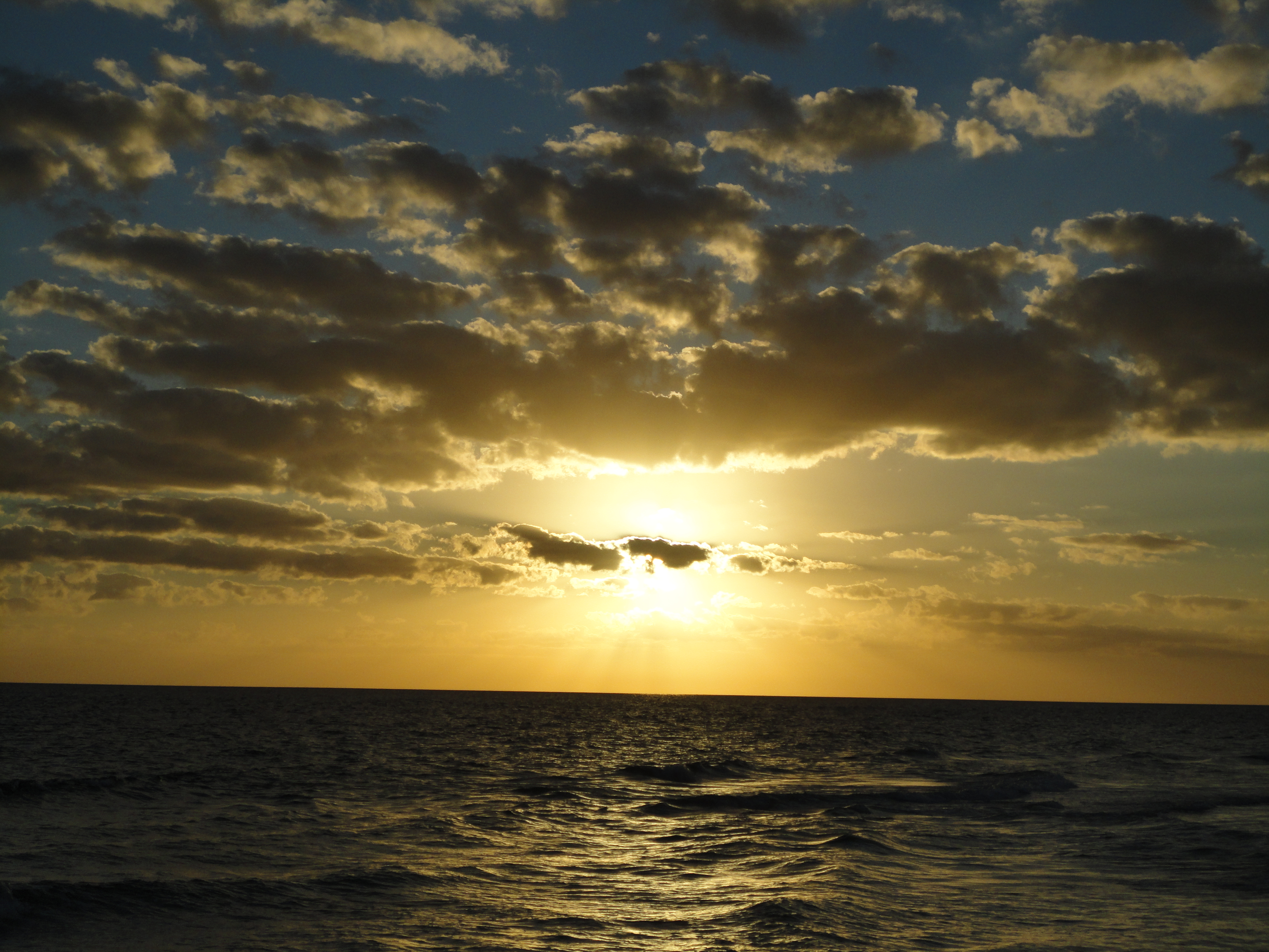 Sun setting over the Gulf; Destin, Florida.